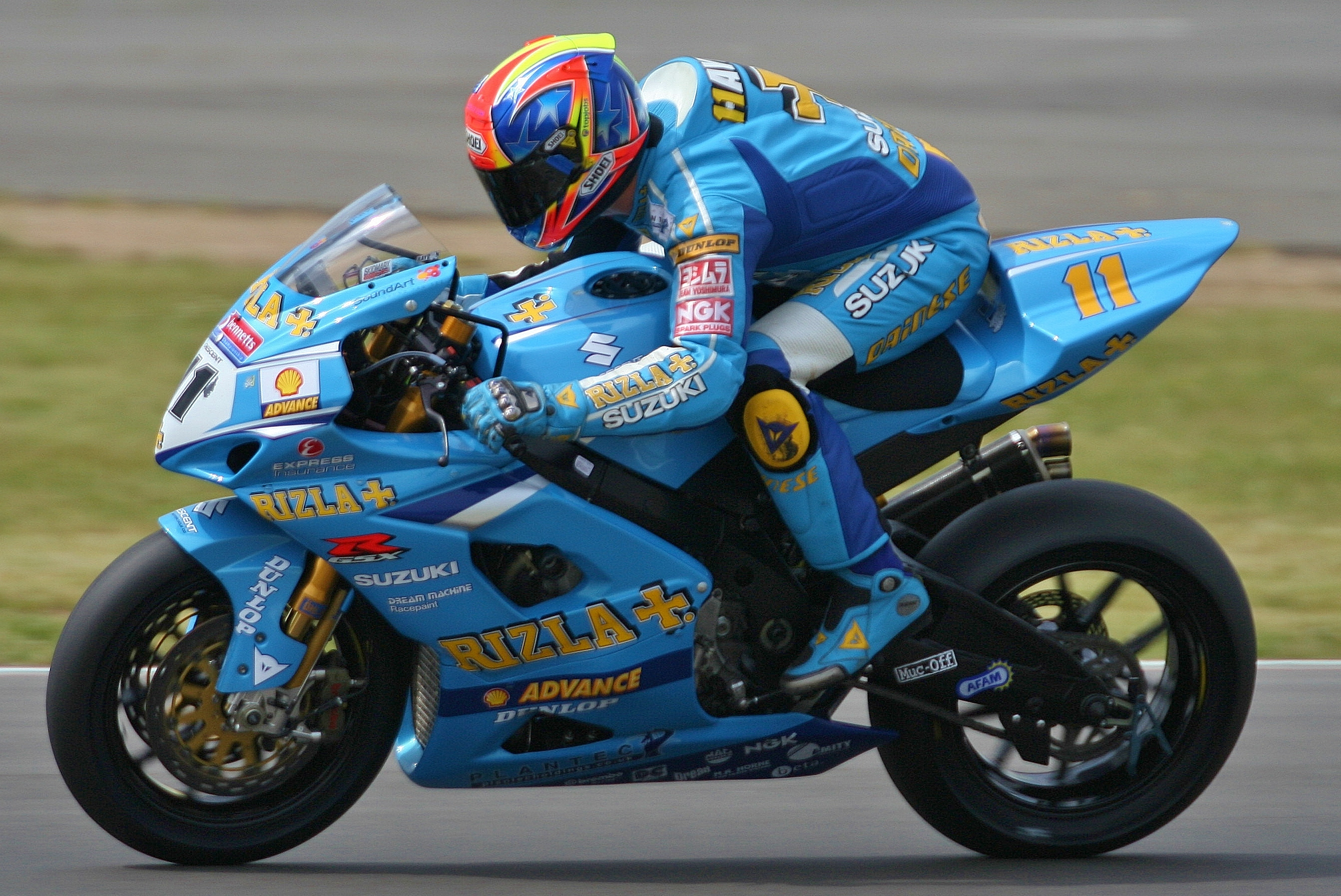 James Haydon on a Rizla Suzuki British Superbike at Snetterton in 2006